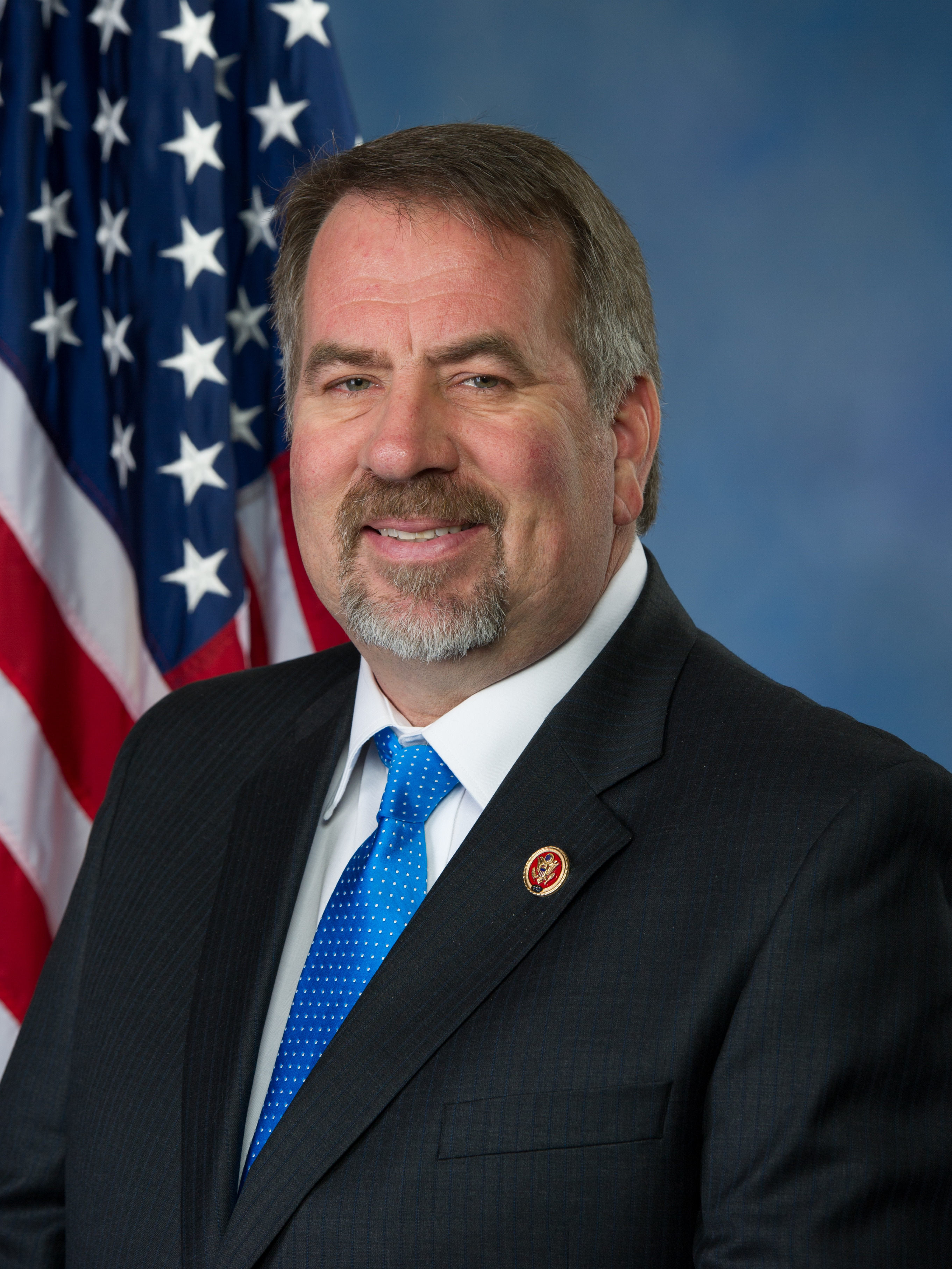 Doug LaMalfa, U.S Representative from California.